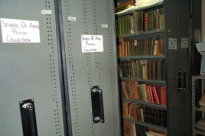 Bathurst Old School of Arts Library Collection: Example of Bathurst Old School of Arts Library Collection in closed reserve at Bathurst City Library.